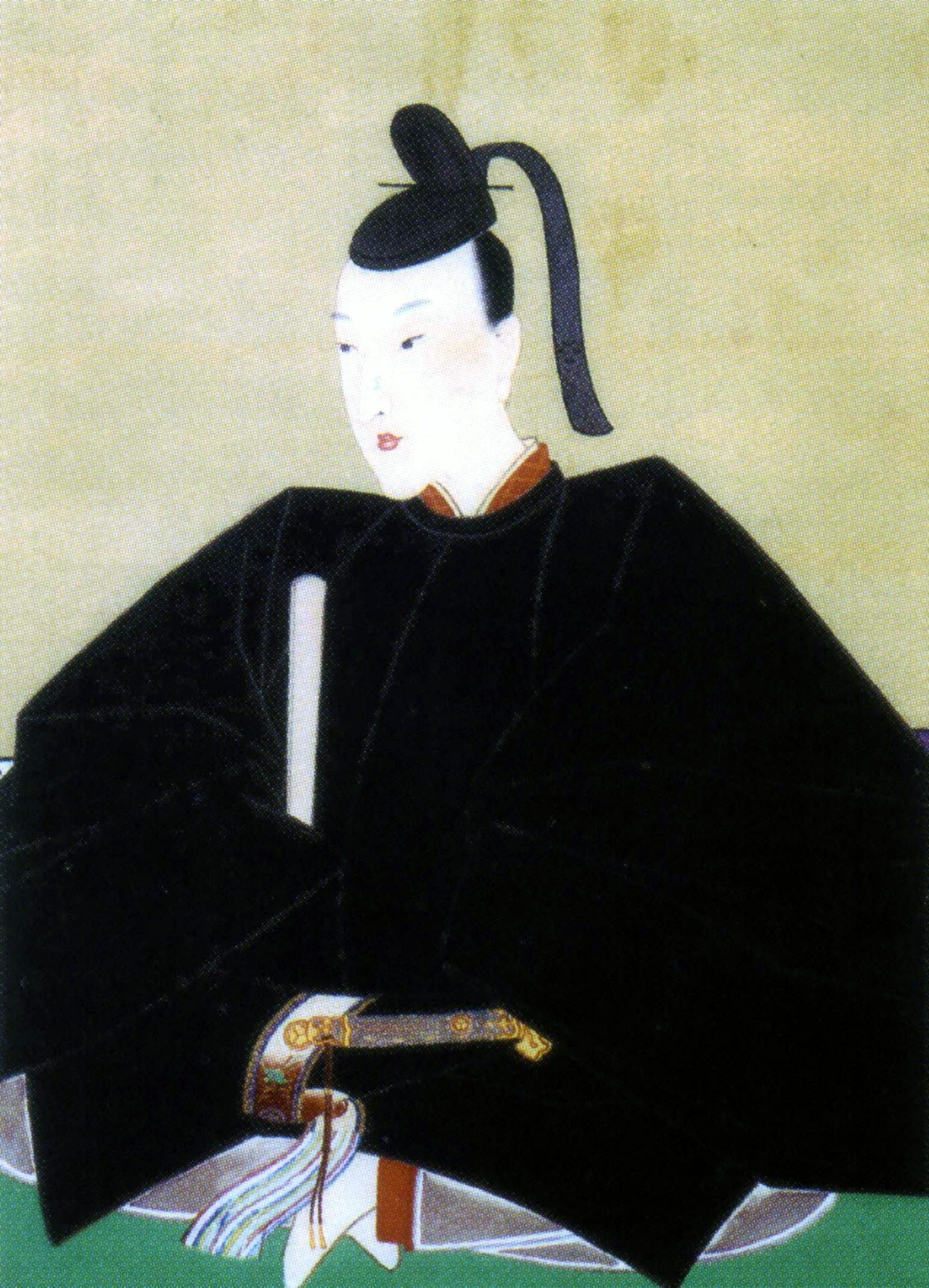 portrait of Ikeda Narimichi(the 9th feudal lord of Tottori clan)